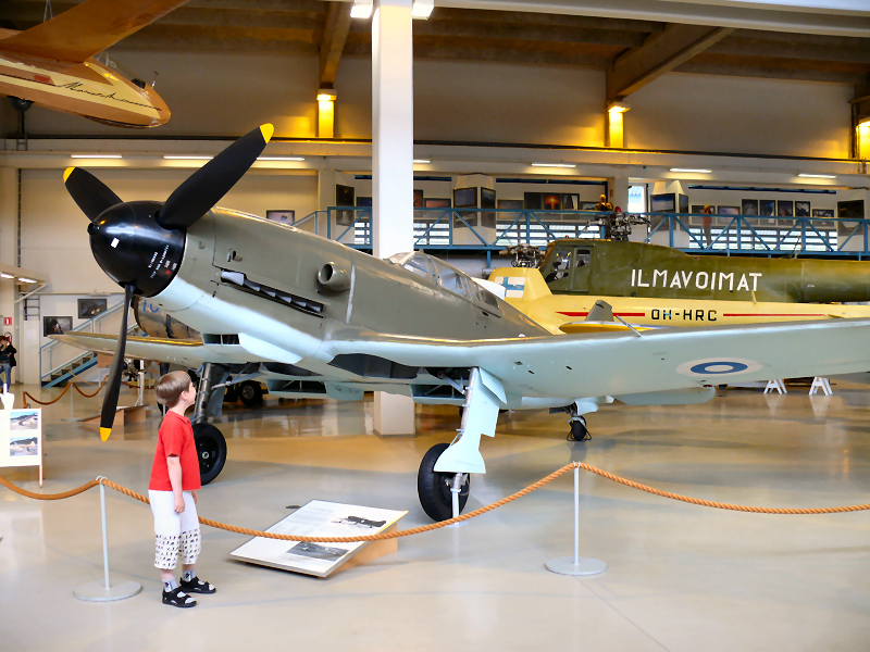 Prototype of fighter aircraft VL Pyörremyrsky in the Aviation Museum of Central Finland